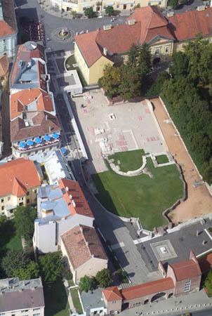 Székesfehérvár, Hungary, aerial photography